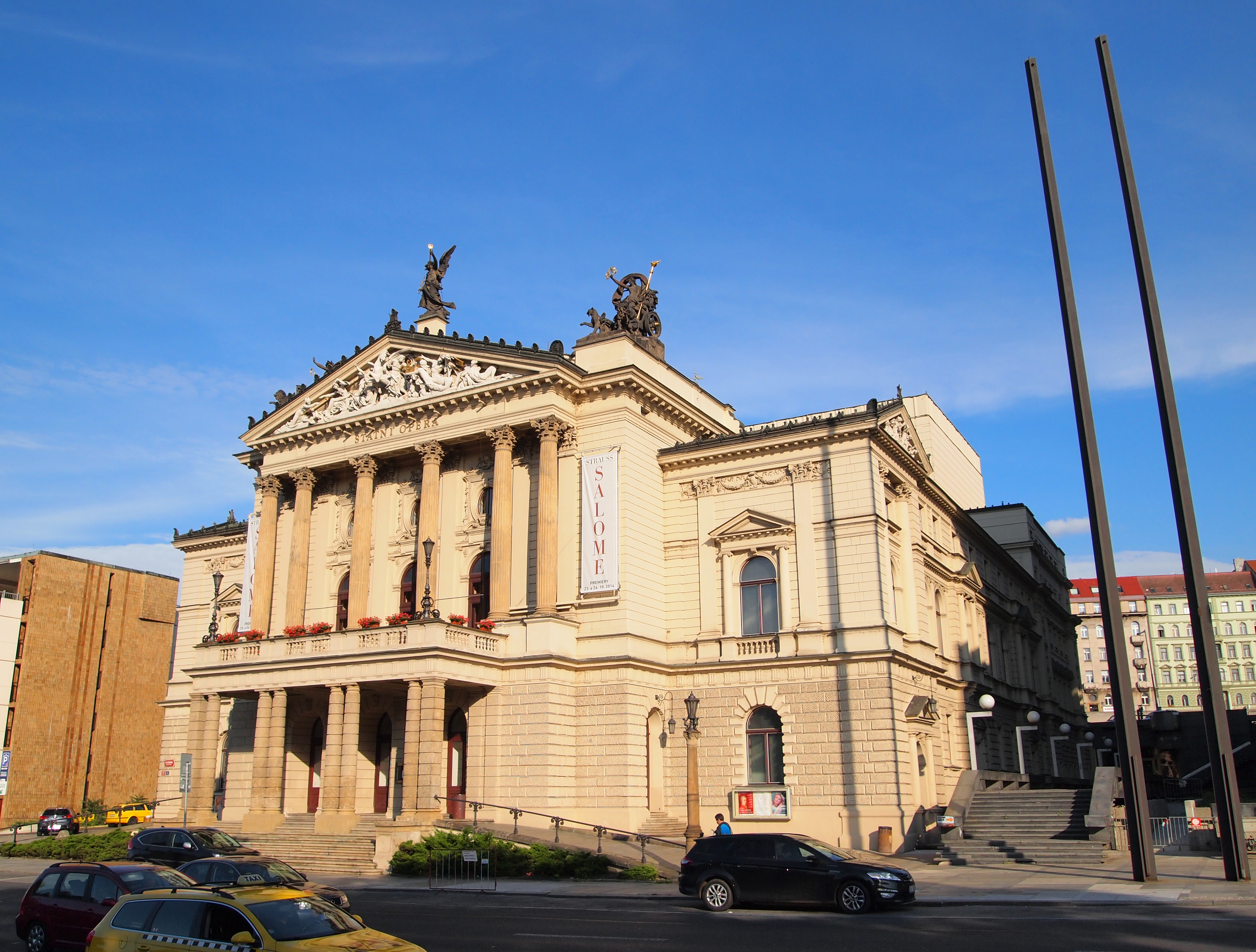 State Opera in Prague. This photograph was taken with an Olympus E-PL1